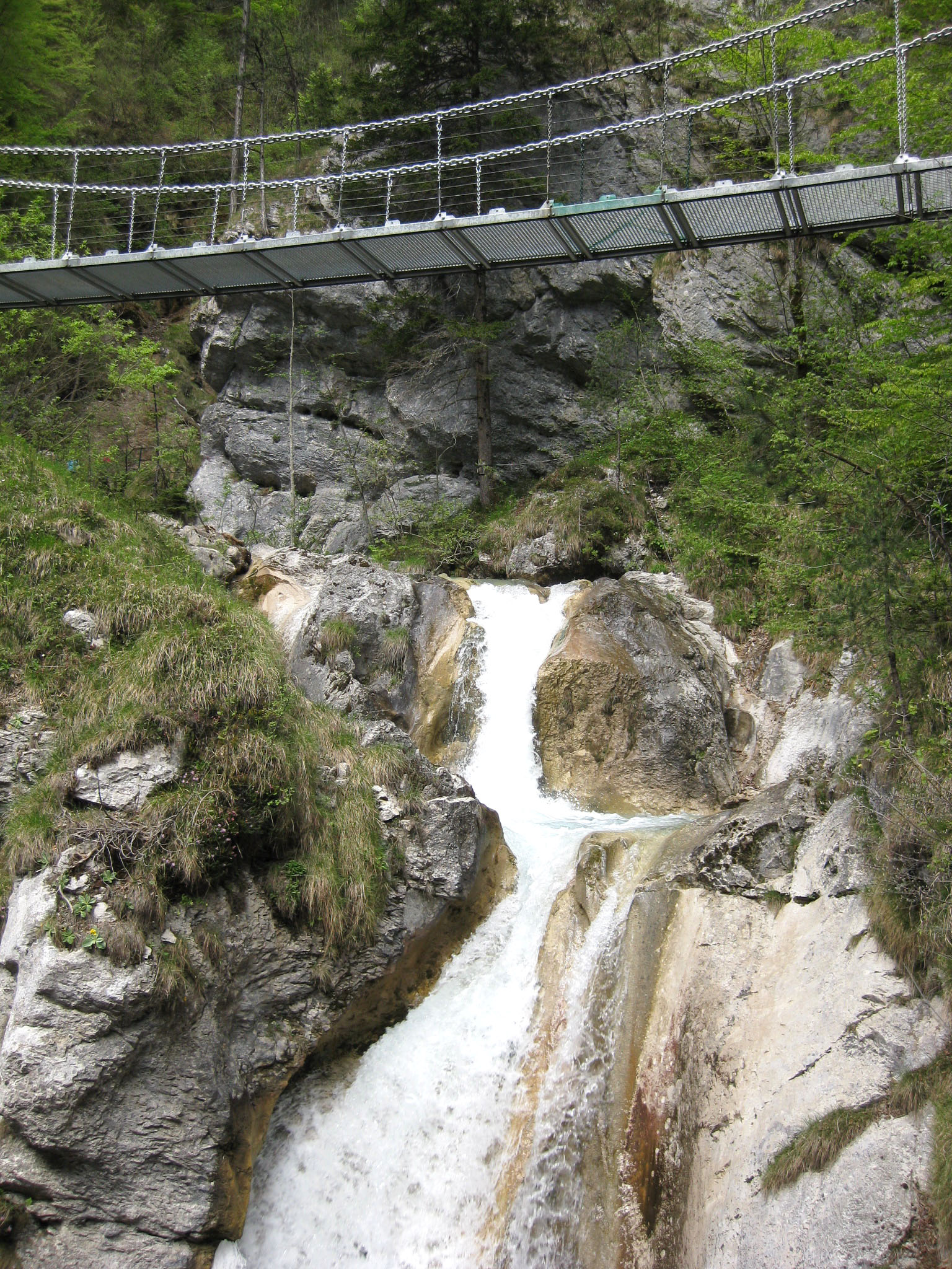 "Devil's bridge" at Čepa (slo.), Tscheppaschlucht (ger.), valley/canyon in Kärnten (Avstrijska Koroška), near Ljubelj (Loibl) pass - south of Klagenfurt/Celovec